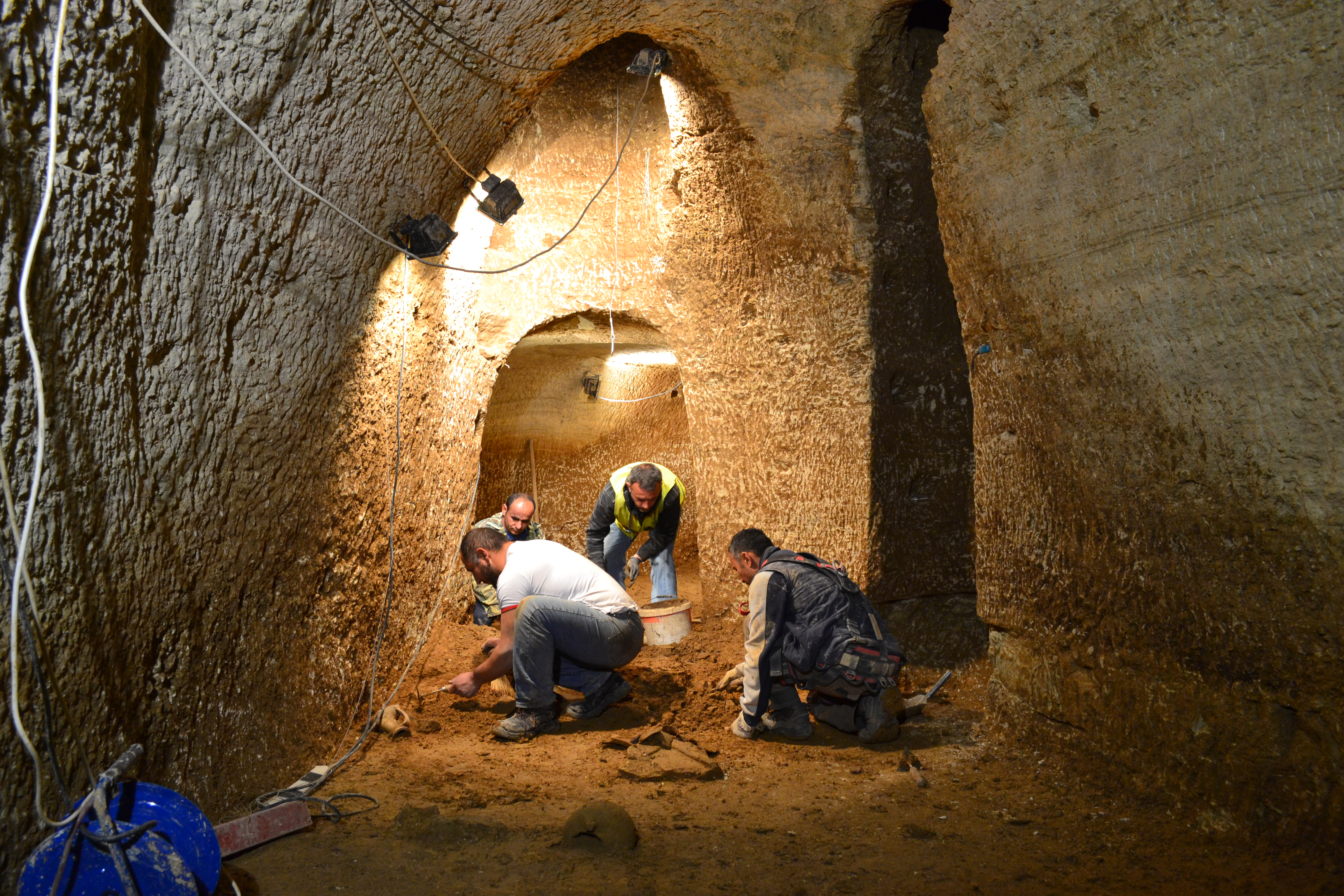 Excavation inside an ancient cistern